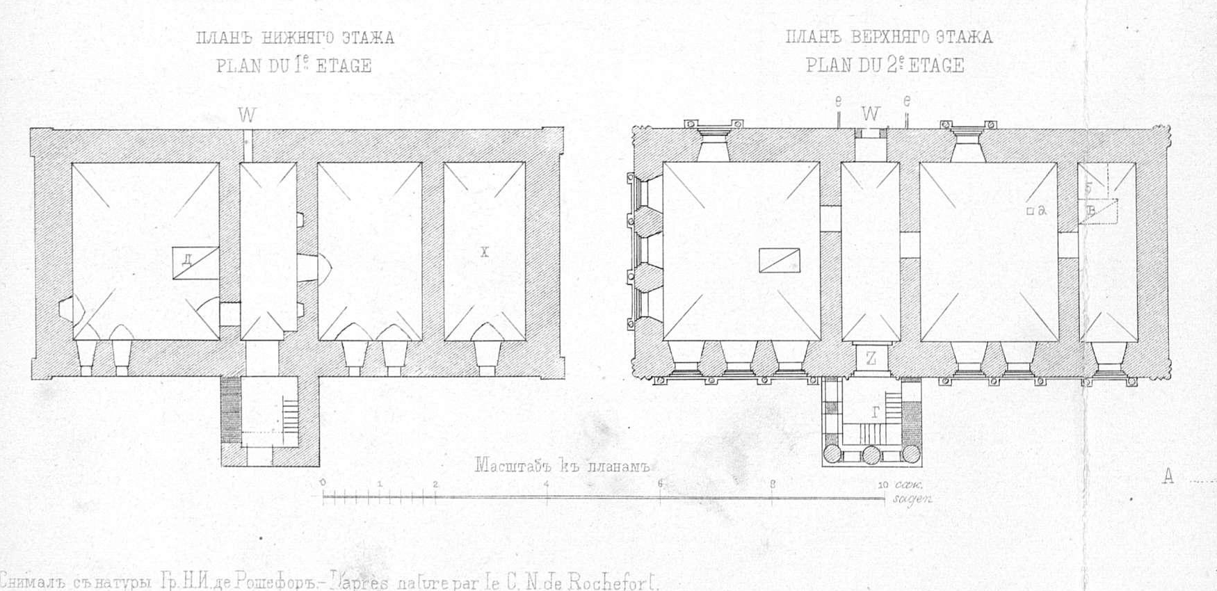 The Korobovs' House in the magazine "Zodtchy".